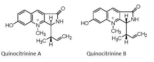 Quinocitrinines A and B